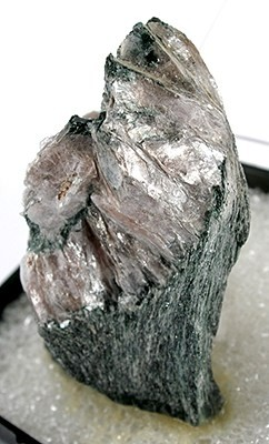 Margarite Locality: Wright Mine, Chester Emery Mines, Chester, Hampden County, Massachusetts, USA (Locality at ) Size: 4.8 x 3.4 x 2.6 cm. A foliated mass of pearlescent pink margarite is emplaced in a vug in schist: a rare calcium, aluminum silicate. Ex. Harold Urish Collection.